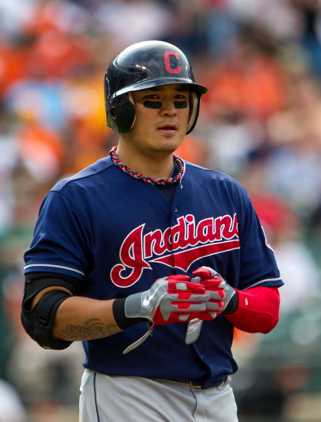 Shin-Soo Choo, the right fielder of the Cleveland Indians.